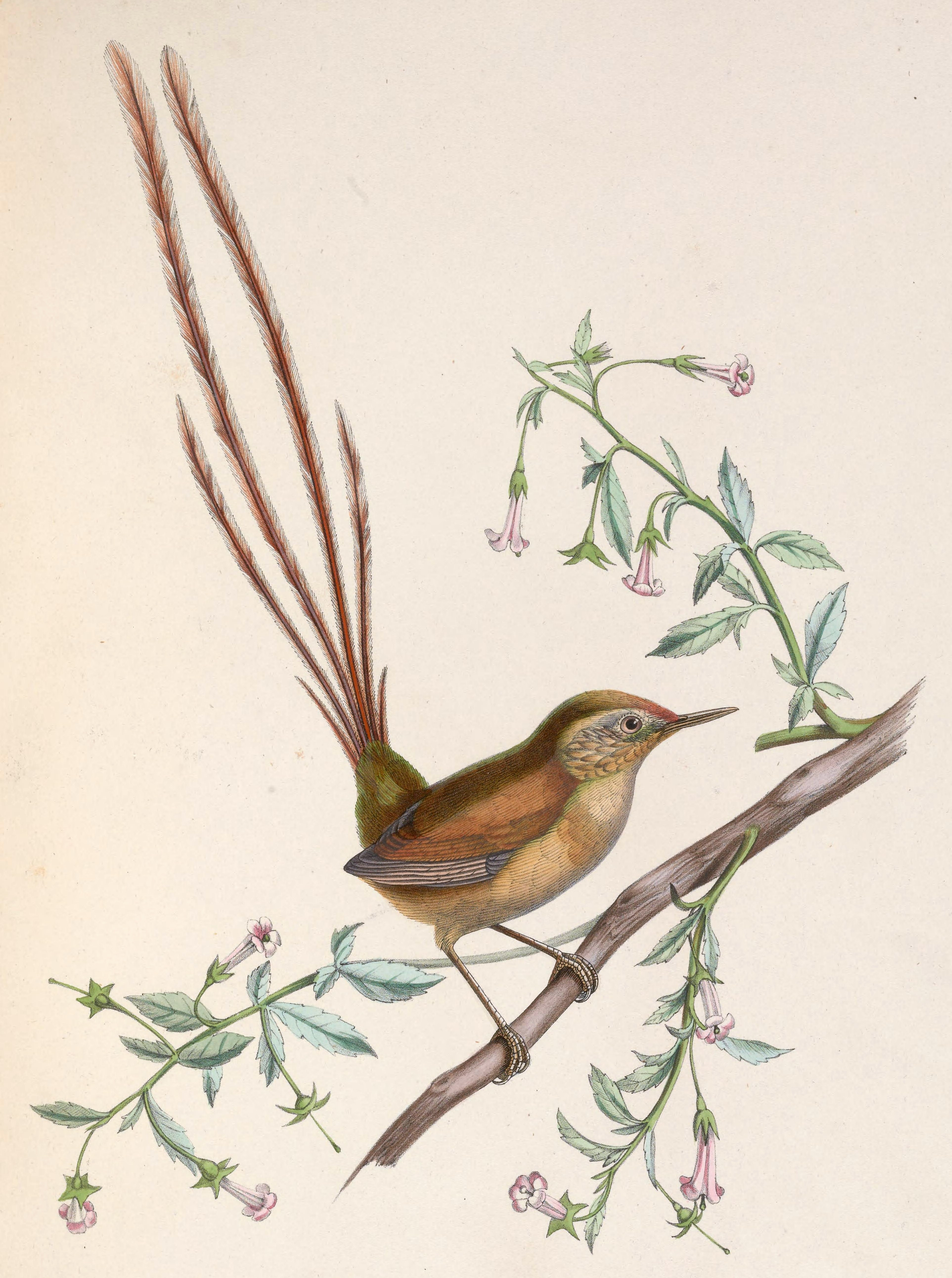 Sylviorthorhynchus maluroides = Sylviorthorhynchus desmursii (Des Murs's Wiretail)